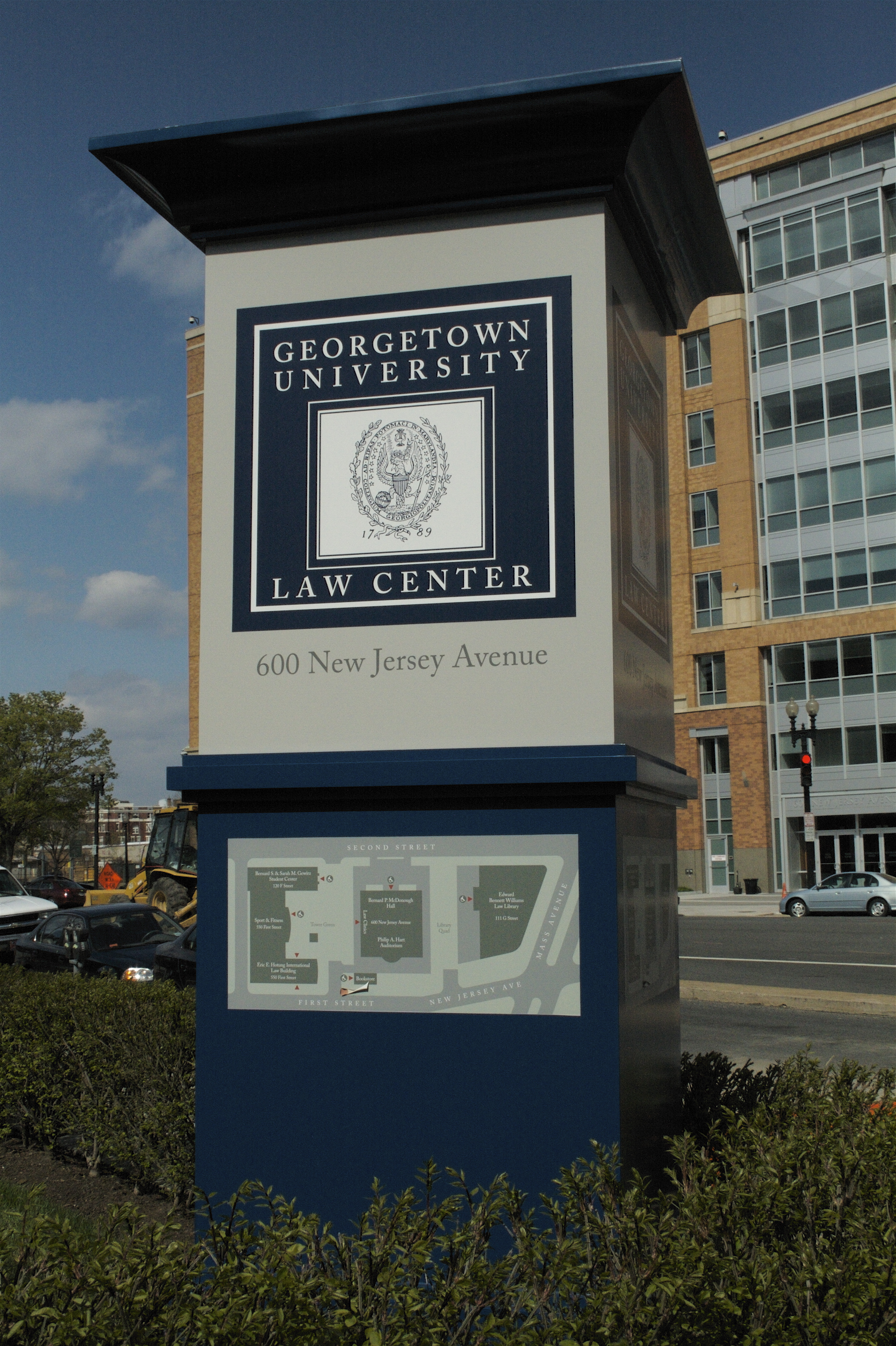 Amber came to visit to check out the Georgetown Law School campus. It was pretty, but deserted on a Sunday, but still a pleasant campus.